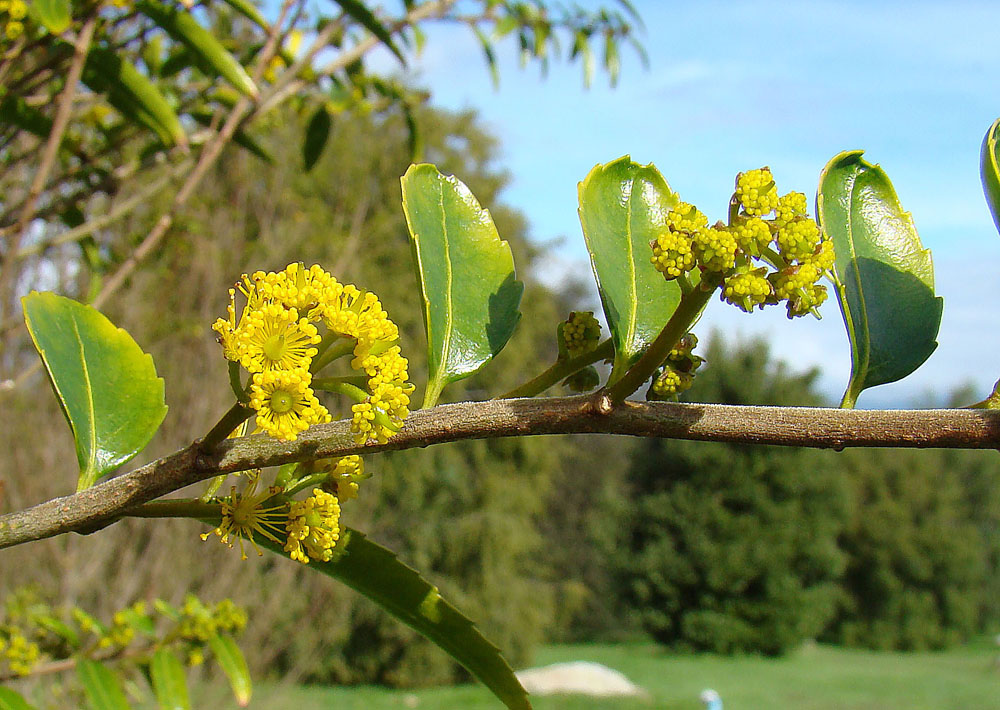 Showing the development of Corcolen flowers, Chilean Lake District. In context at